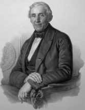 Picture of Carl August Gadegast